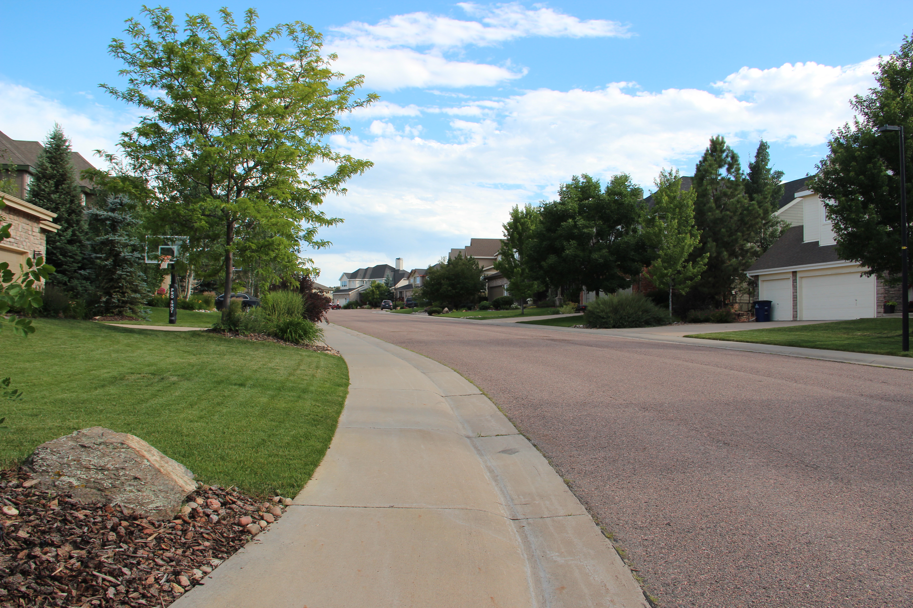 Neighborhood in Castle Pines, Colorado